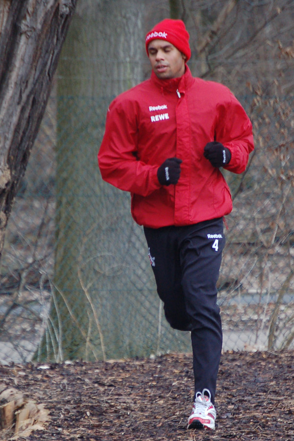 German footballer Marvin Matip.